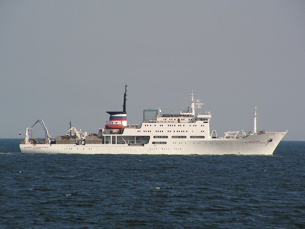 Russian scientific research vessel Akademik Mstislav Keldysh. Call Sign: UFJI Gross tonnage: 6259 Year of build: 1980 Flag: Russia Registered owner: SHIRSHOV INSTITUTE Ship manager: SHIRSHOV INSTITUT Baltic Sea, September 2006